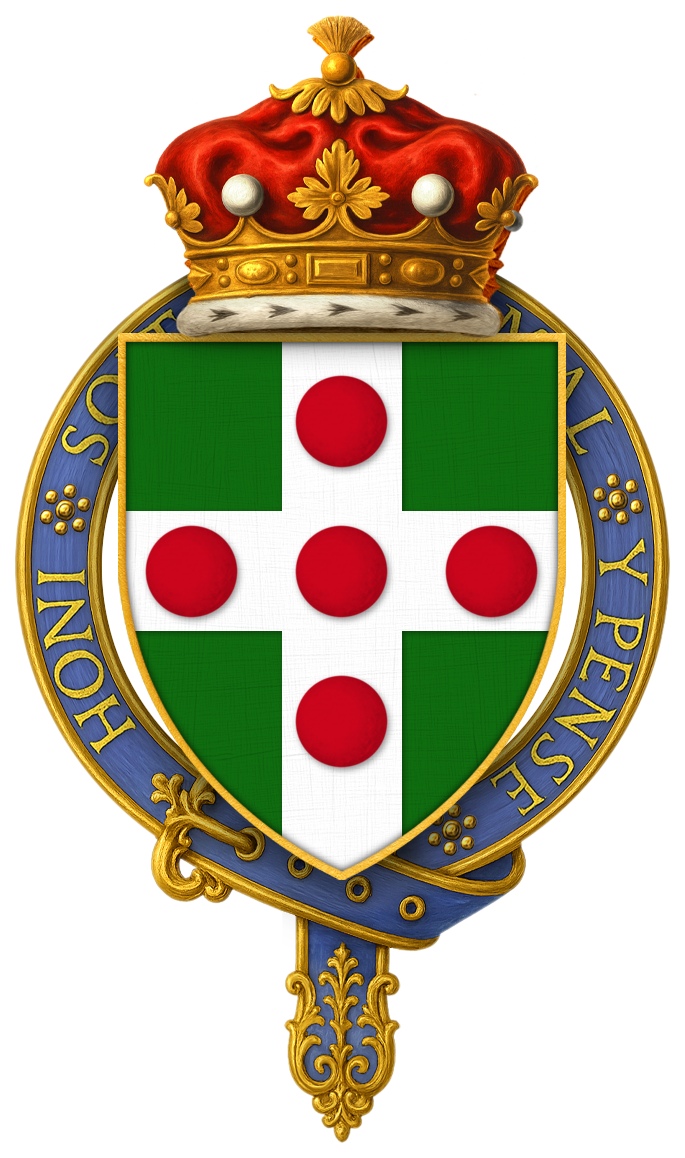 Coat of arms of George Nugent-Temple-Grenville, 1st Marquess of Buckingham, KG, KP, PC Arms: Vert, on a cross argent five torteaux (for Grenville)